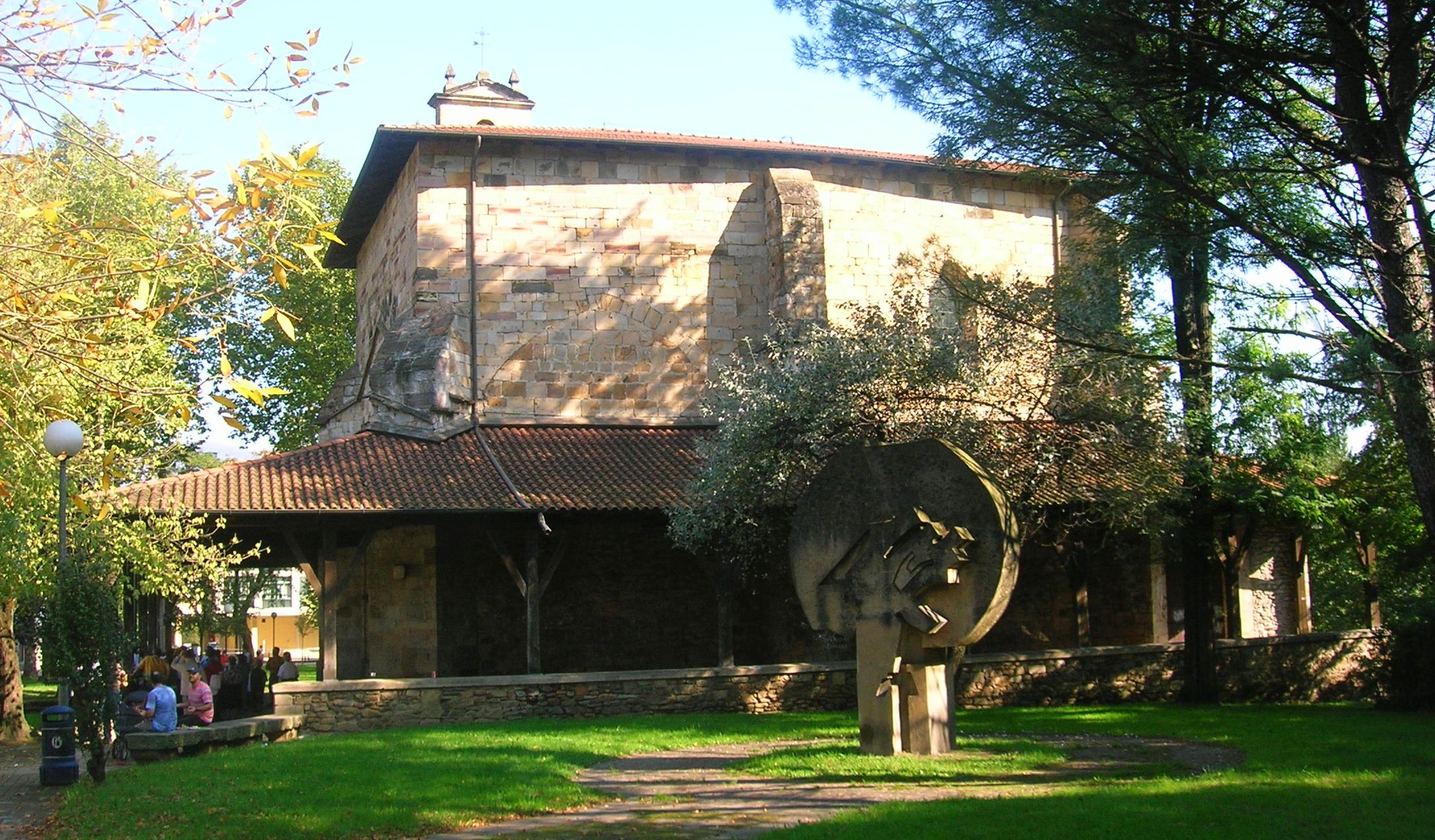 Saint Peter's Church in Tabira, Durango, considered by some to be the most ancient church in Biscay.